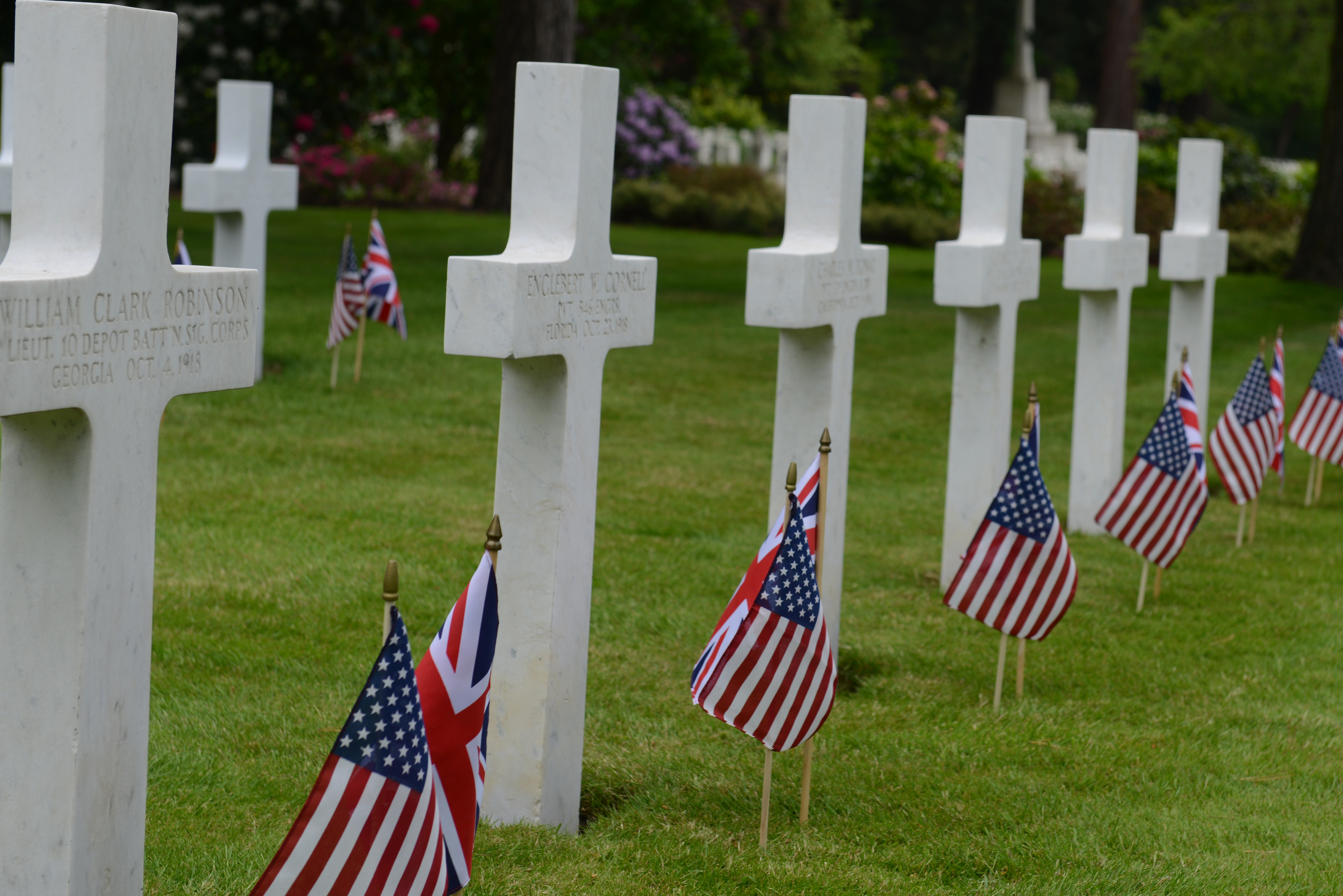 Rows of headstones line the grounds of Brookwood American Military Cemetery, United Kingdom, May 25, 2014. The cemetery is the final resting place of 468 American service members who gave their lives during World War I. (U.S. Air Force photo by Tech. Sgt. Chrissy Best/Released) Unit: 501st Combat Support Wing DVIDS Tags: @USAFE; Honor Guard; British Army; sacrifice; USAFE Band; veterans; United States Air Force; @airman; USAF; WW1; #Brookwood; RAF Croughton; 501st Combat Support Wing; 422nd Air Base Group; 501st CSW; 422nd ABG; American Battle Monument Commission; @usafe_afafrica; @501CSW; @US Embassy London; #iHonor; #HonorThem; American Memorial Day; A Day of Remembrance; Brookwood Surrey; Brid. Gen. Dieter Bareihs; Defence Attache; Headquarters Initial Training Group; Army Training Centre Pirbright; #MemorialDay15; @422ABG; #usembasseylondon; #chrissybest; #airmanmagazine